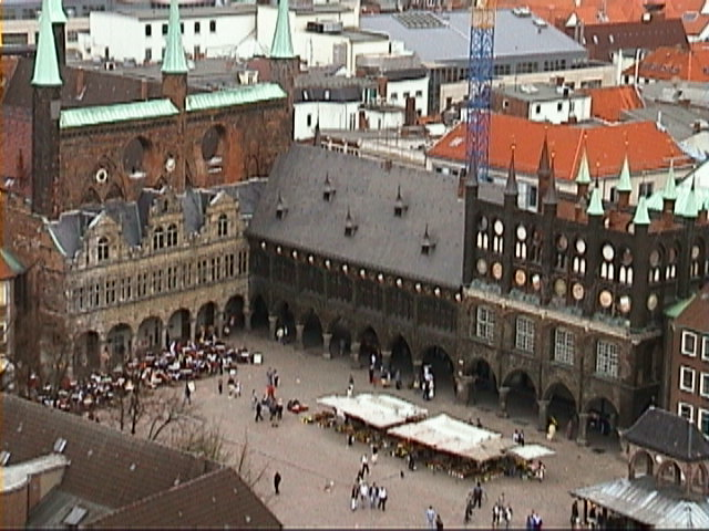 Town Hall and market place in Lübeck, Germany.